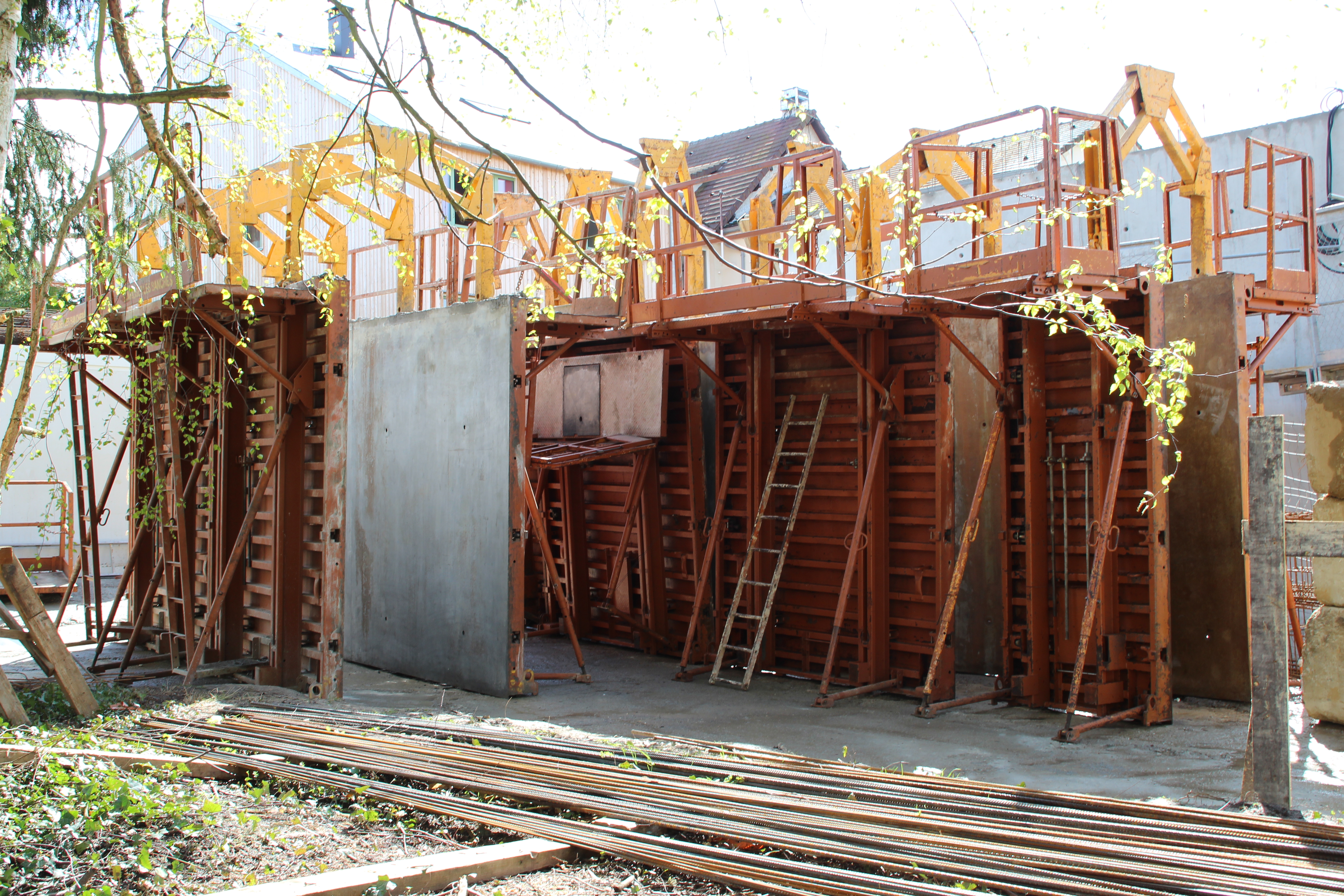 Construction site at 20 Pierre Chesneau street in Saint Rémy lès Chevreuse, France